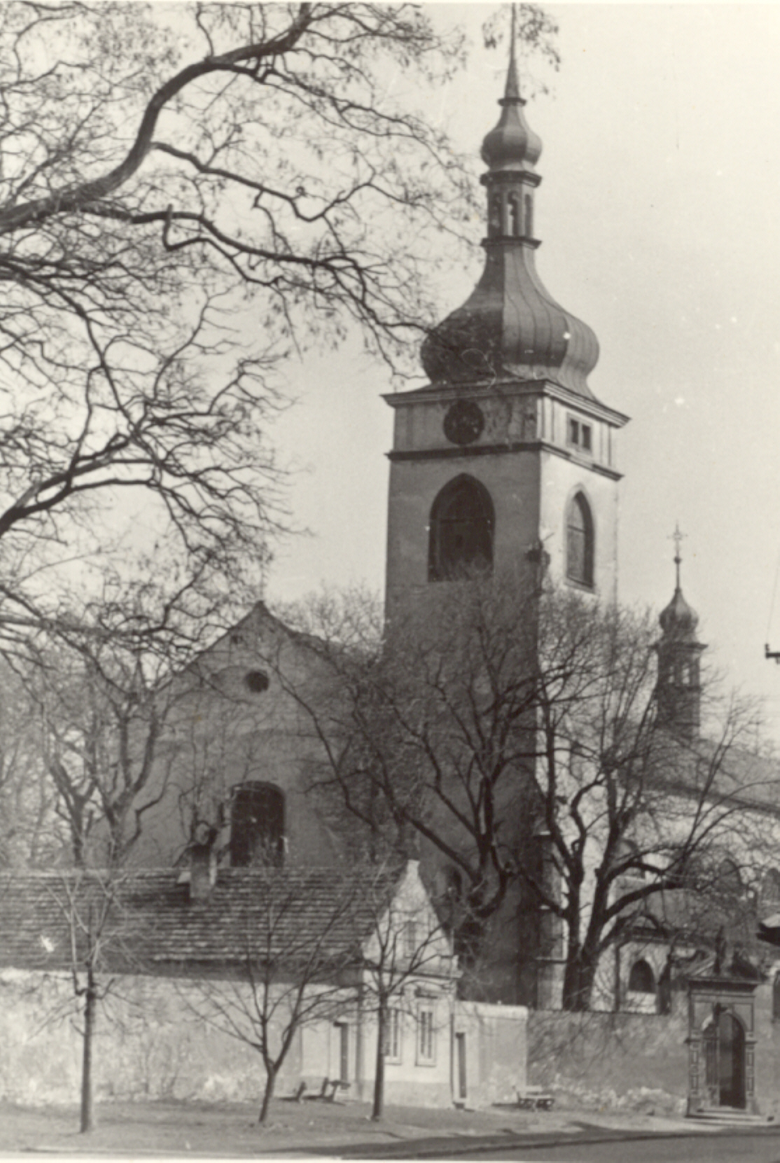 St. Wenceslas basilic in Stara Boleslav Česky: Bazilika sv. Václava (po 1039) Stará Boleslav, pohled od západu